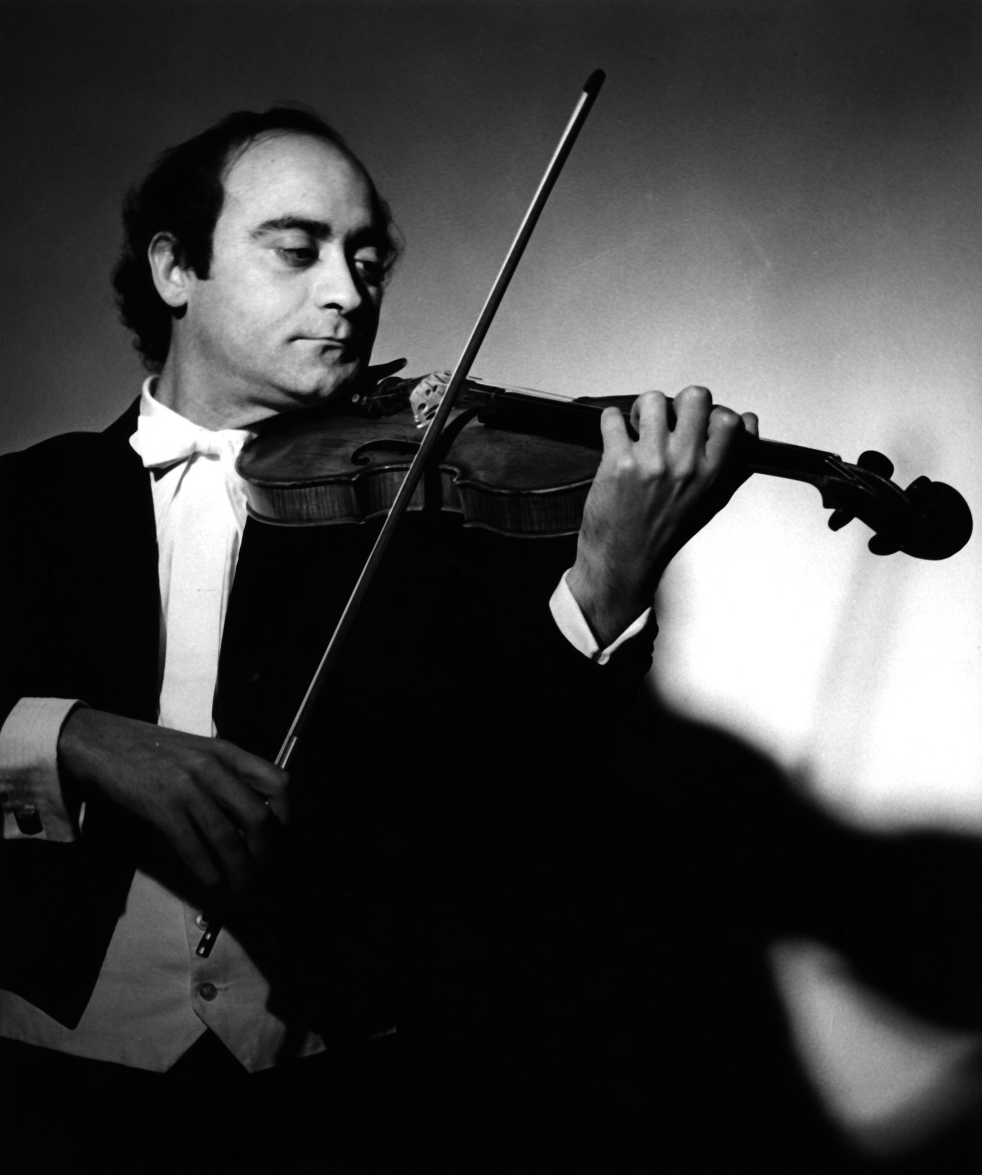 Photo portrait of Salvador Porter, violinist from Valencia (Spain), ca. 1975.